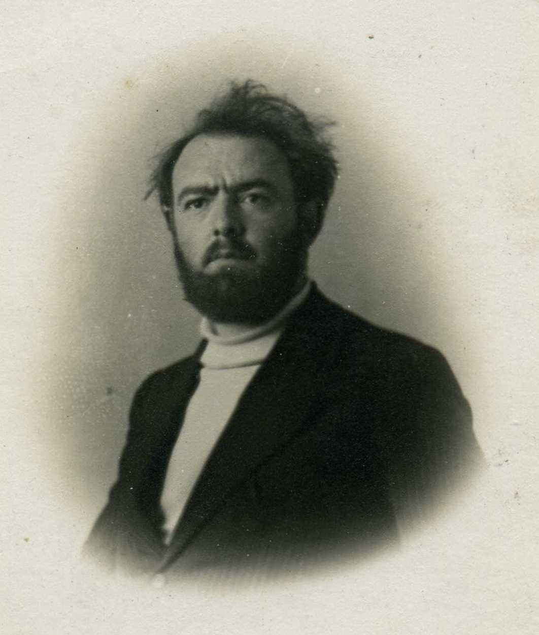 Dutch composer Matthijs Vermeulen (188-1967). Photo (1920) by an unknown photographer